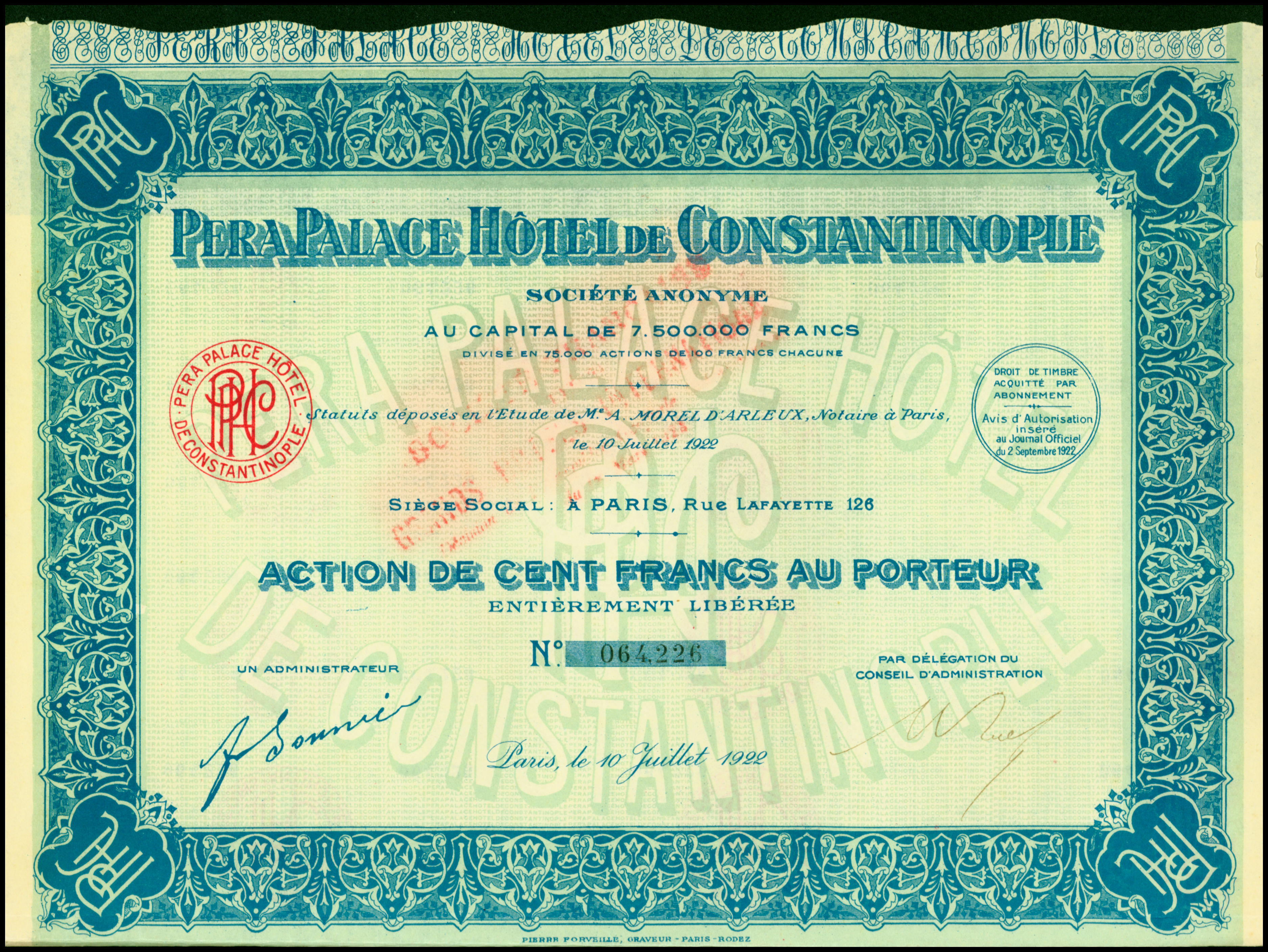 Share of the Pera Palace Hotel de Constantinople, issued 10. July 1922